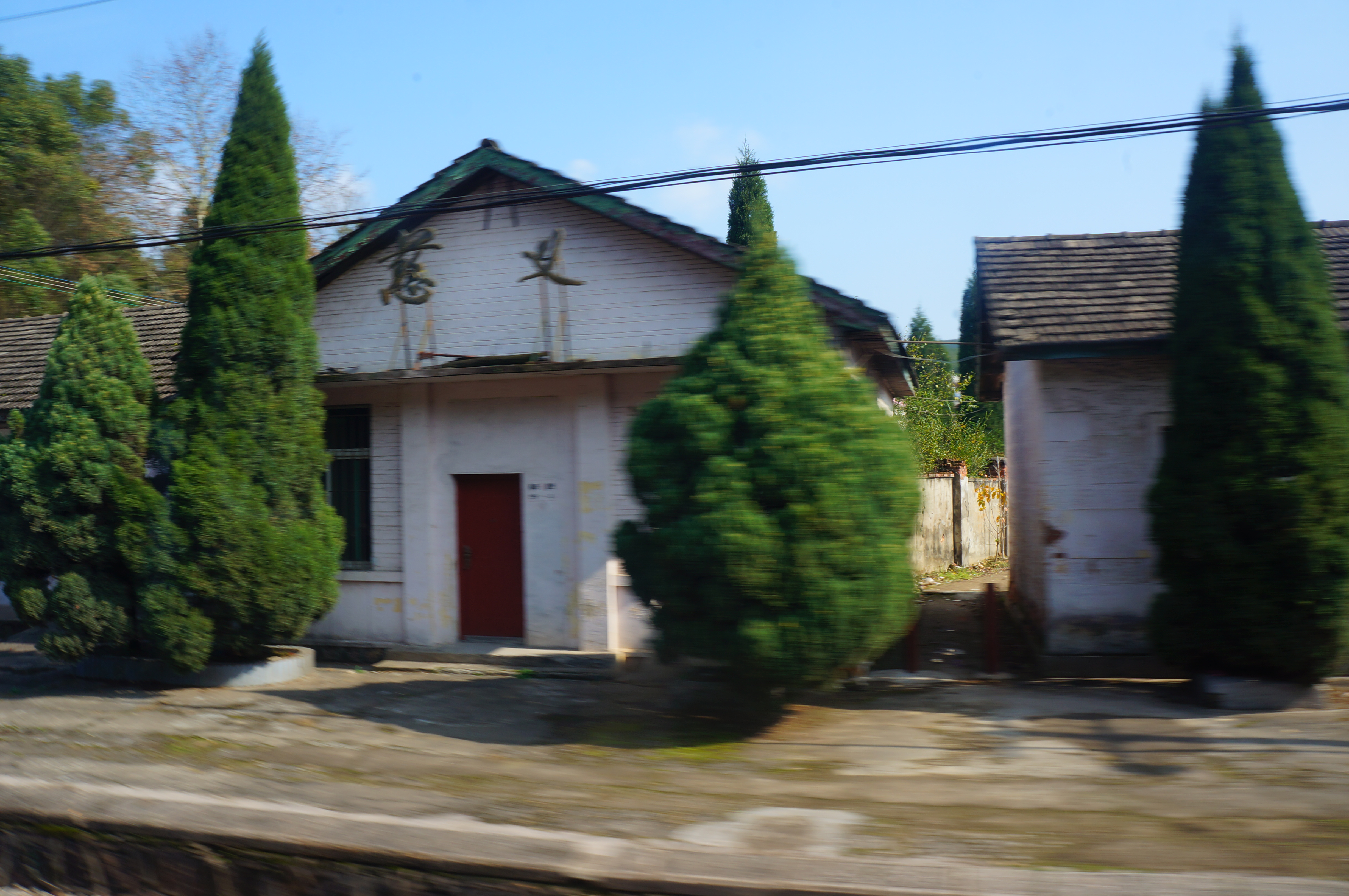 201612 Ciyi Station